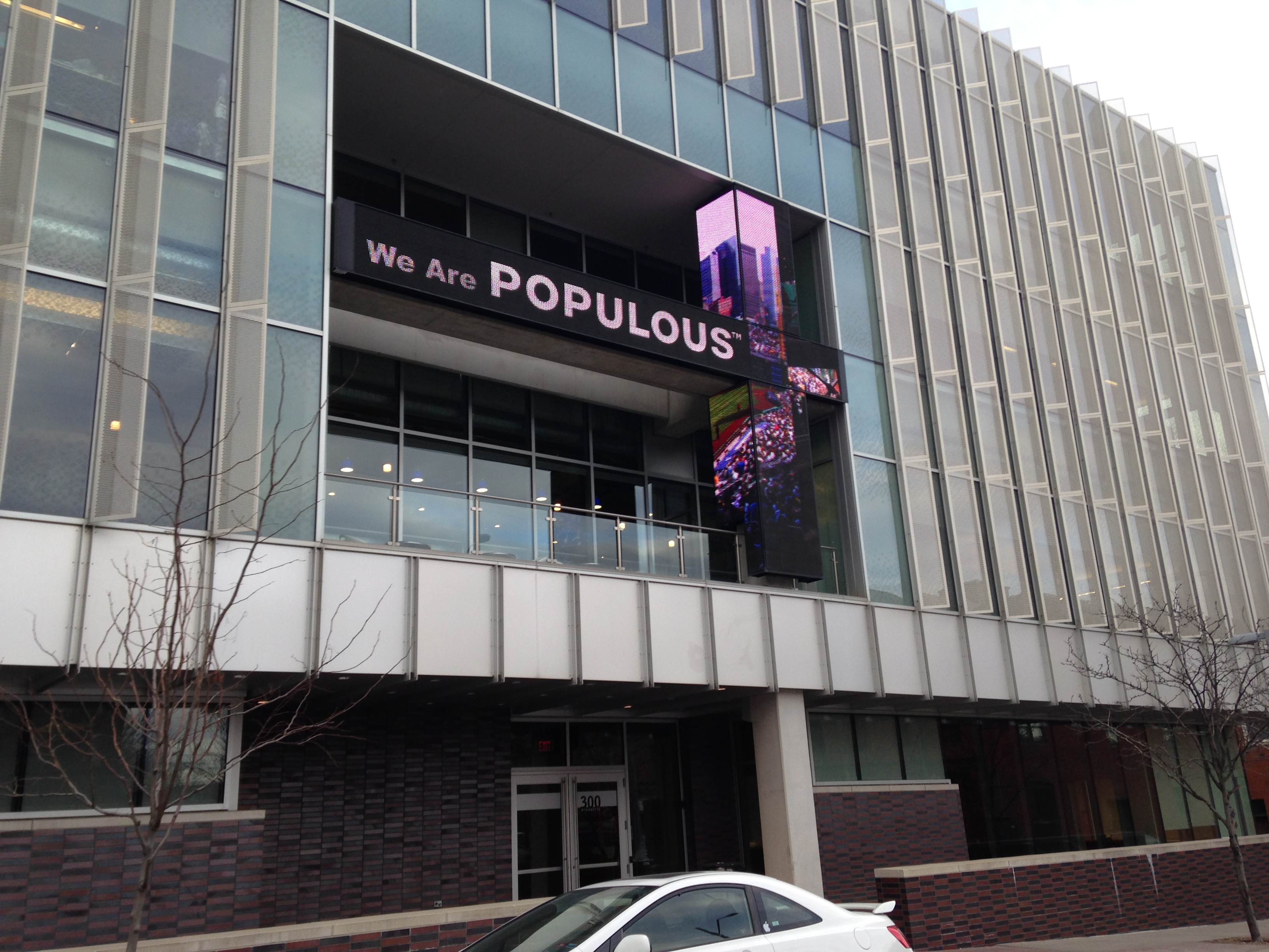 Headquarters of Populous, in Kansas City, MO, USA